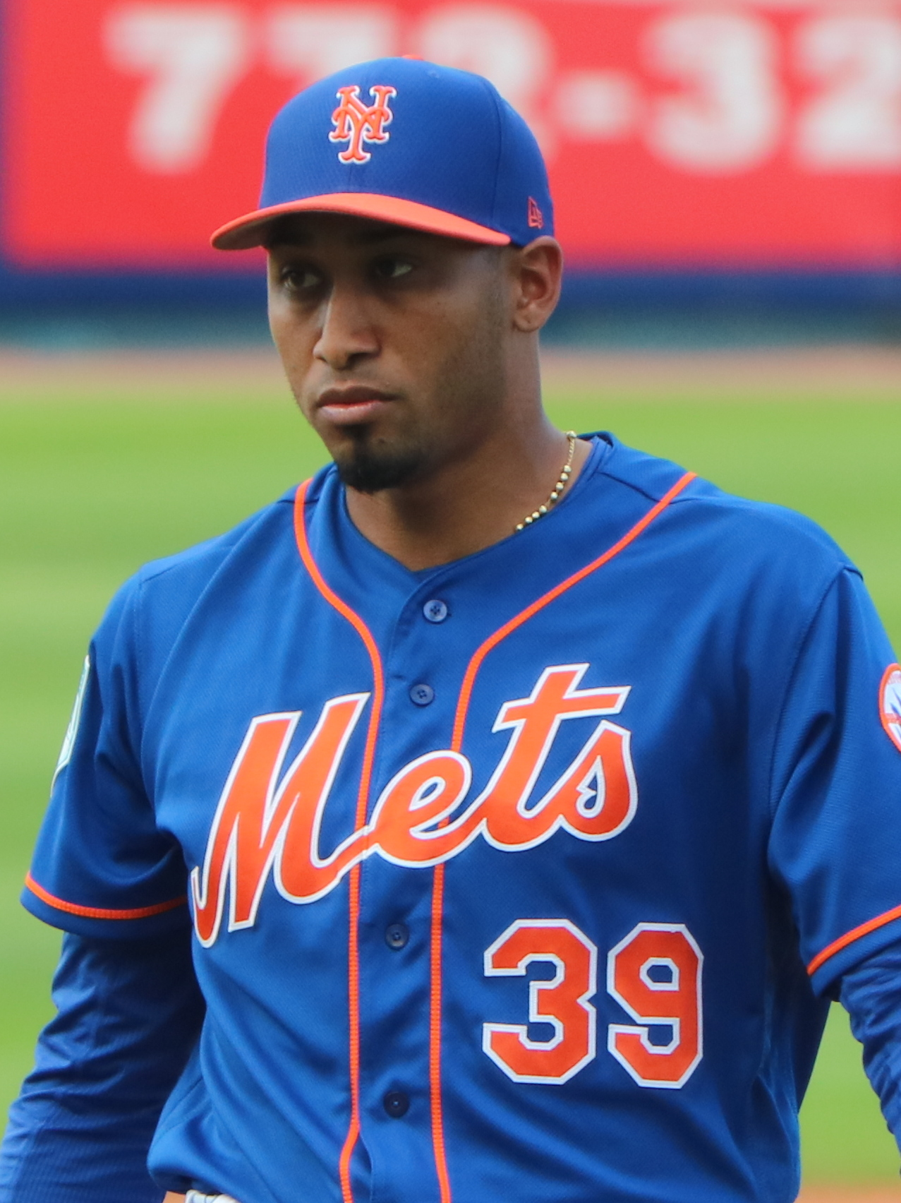 Edwin Diaz on March 2, 2019